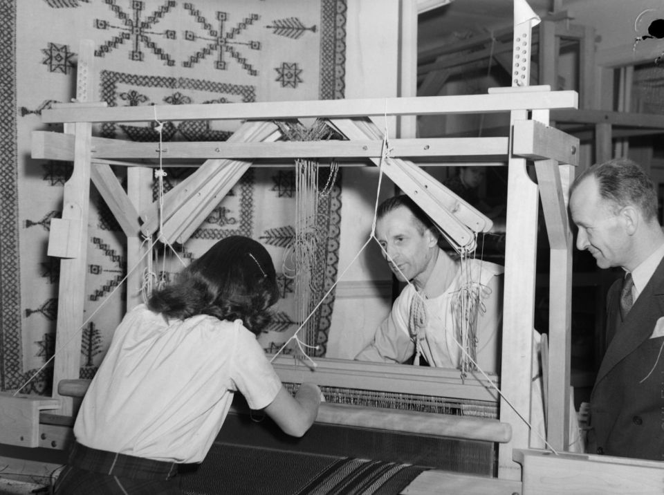 Three people stand around a loom School furniture Berri Street in Montreal.